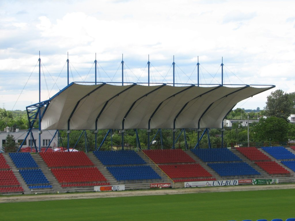 Main tribune of the Edward Szymkowiak Stadium in Bytom.